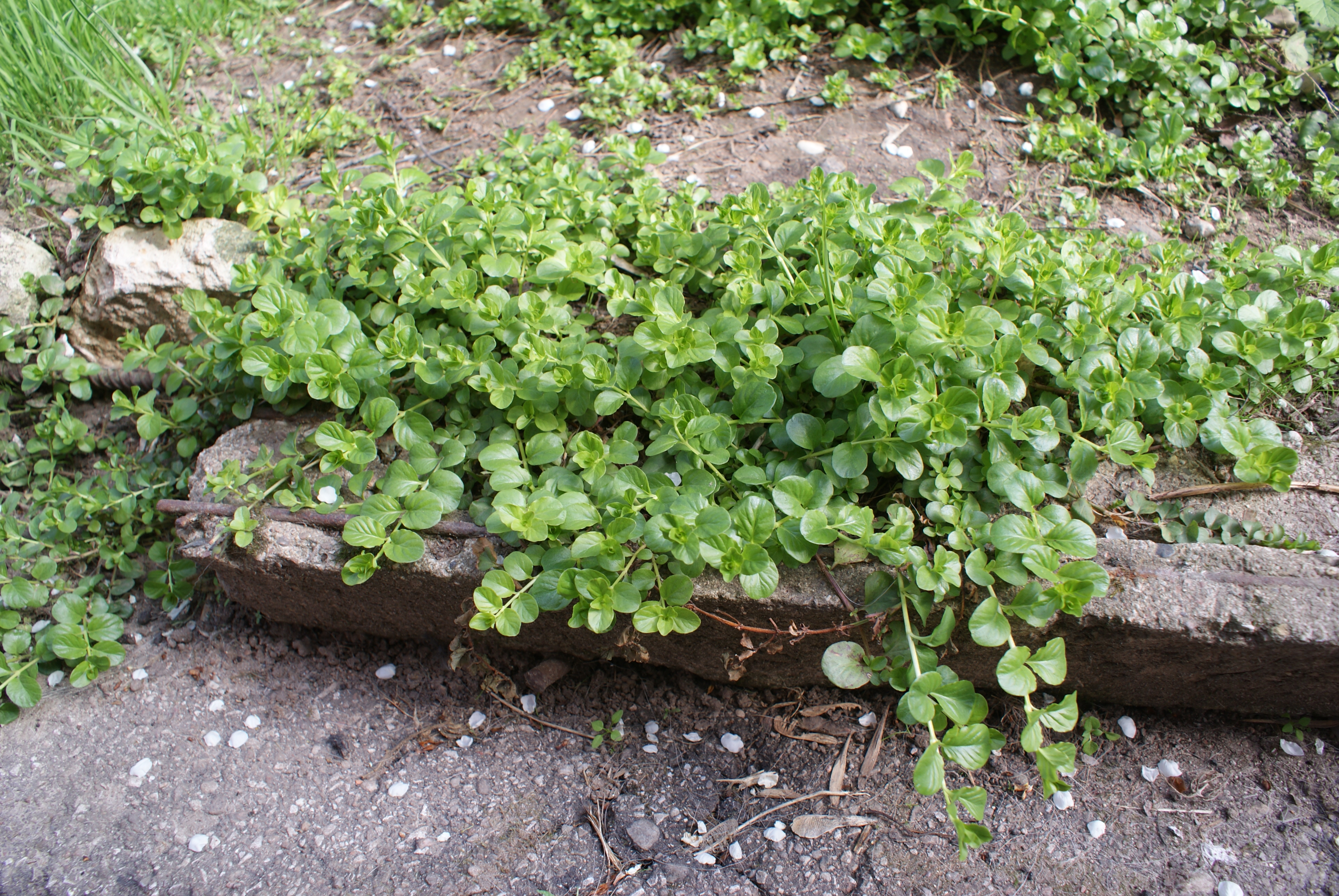 Lysimachia nummularia in Minsk